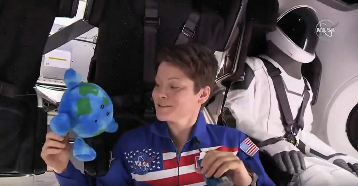 Astronaut Anne McClain in the SpaceX Crew Dragon Demo-1 spaceship after ISS docking, with toy "Litte Earth" (left) and test device "Ripley" (right)